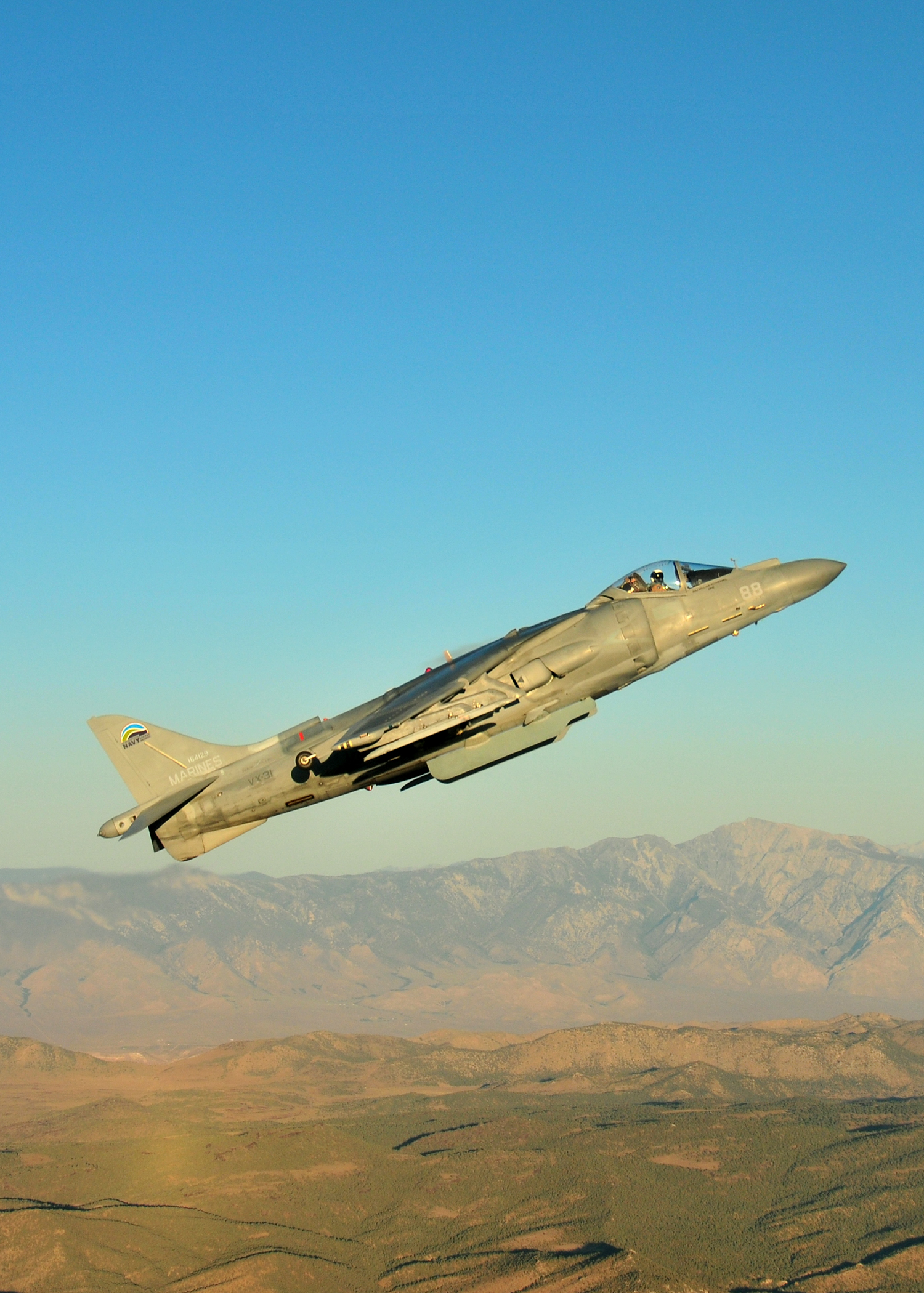 CHINA LAKE, Calif. (Sept. 21, 2011) An AV-8B Harrier assigned to Air Test and Evaluation Squadron (VX) 31 conducts the first test flight of a mix of 50-50 jet fuel and biofuel. The test was conducted over Naval Air Warfare Center Weapons Division, China Lake. (U.S. Navy photo/Released)